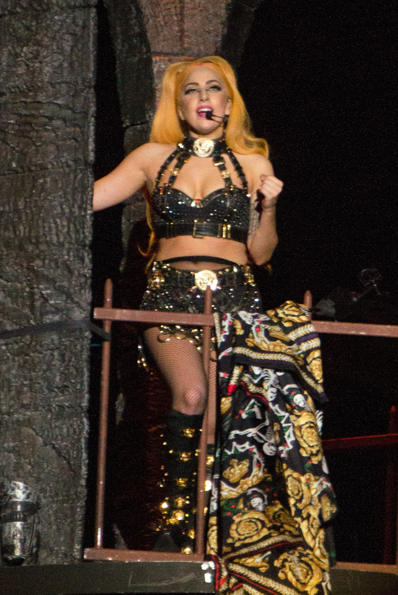 Lady Gaga performing "The Edge of Glory" druing The Born This Way Ball Tour in Perth, Australia.